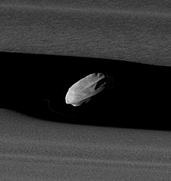 Saturn's inner moon Daphnis on a detailed photograph by Cassini.